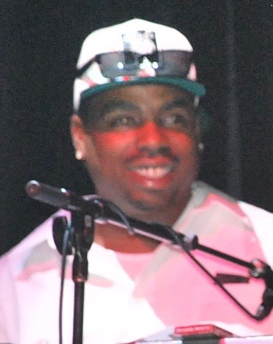 Levi's® x Snoop Dogg Pre-Grammy Party on February 5th at the Hollywood Palladium.